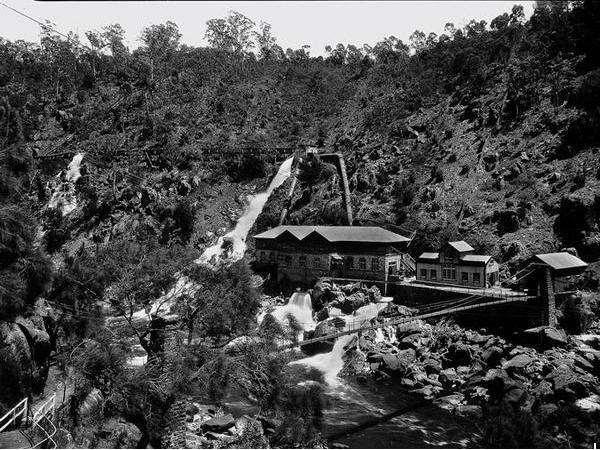 Duck Reach Power Station Picture 1. - Spurling cabinet Spurling, Stephen, Power Station, Launceston (Duck Reach) [picture] 1906-1930.